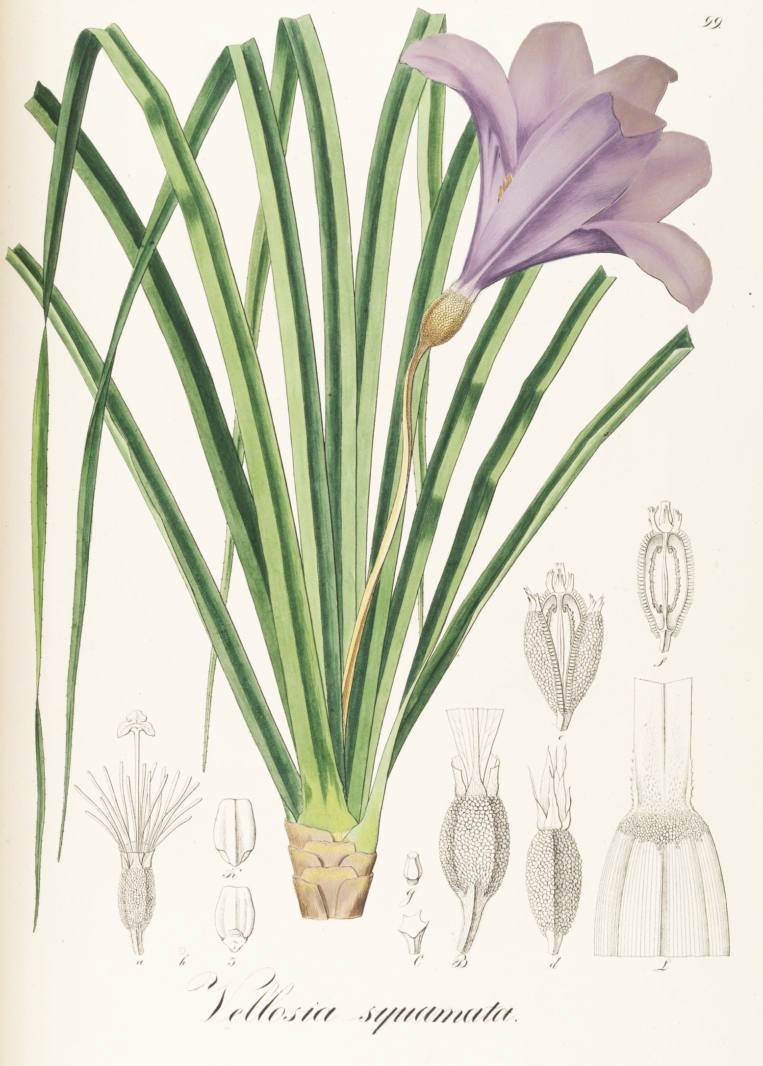 Plate from book